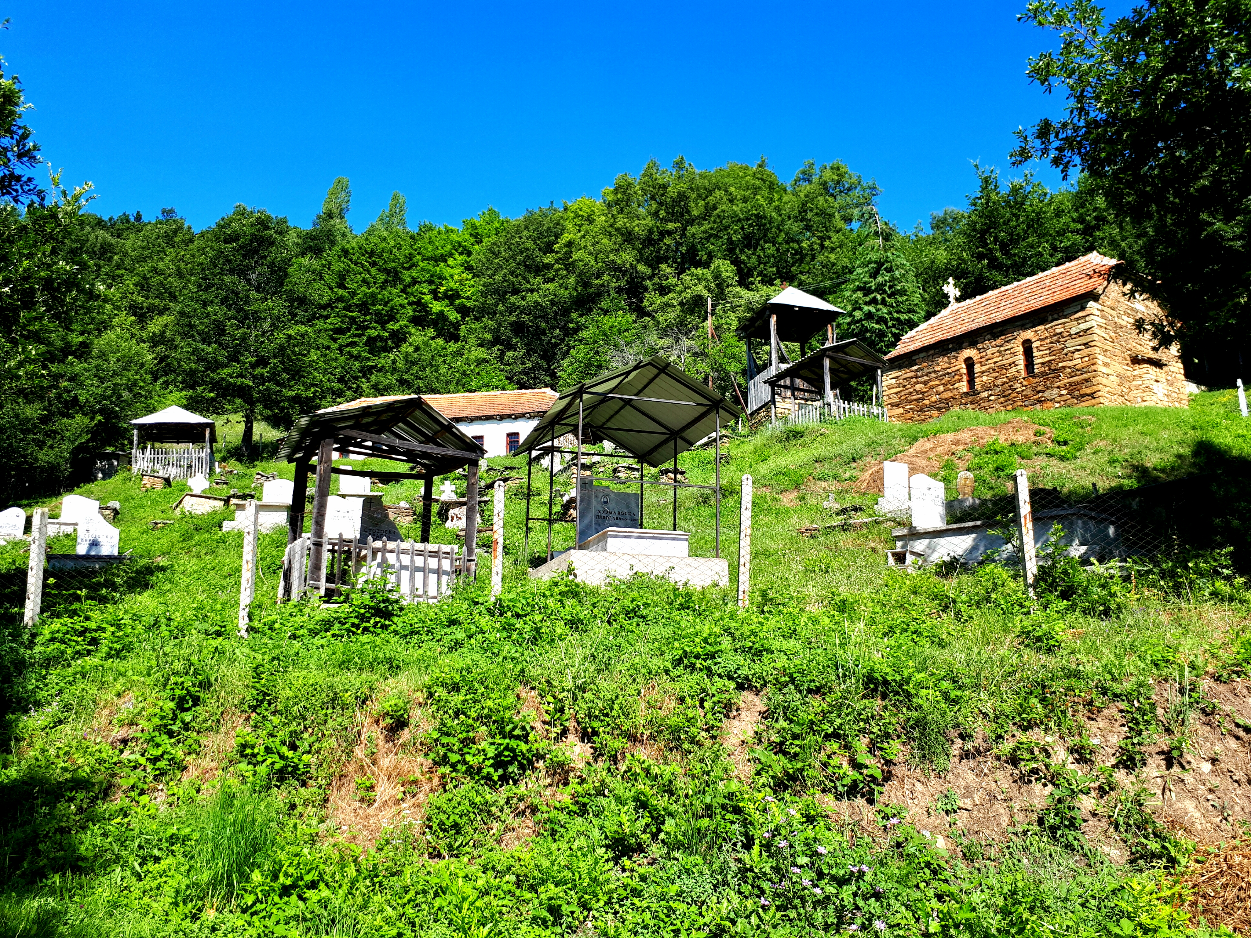 Church of the Ascension of Jesus (Zvečan)